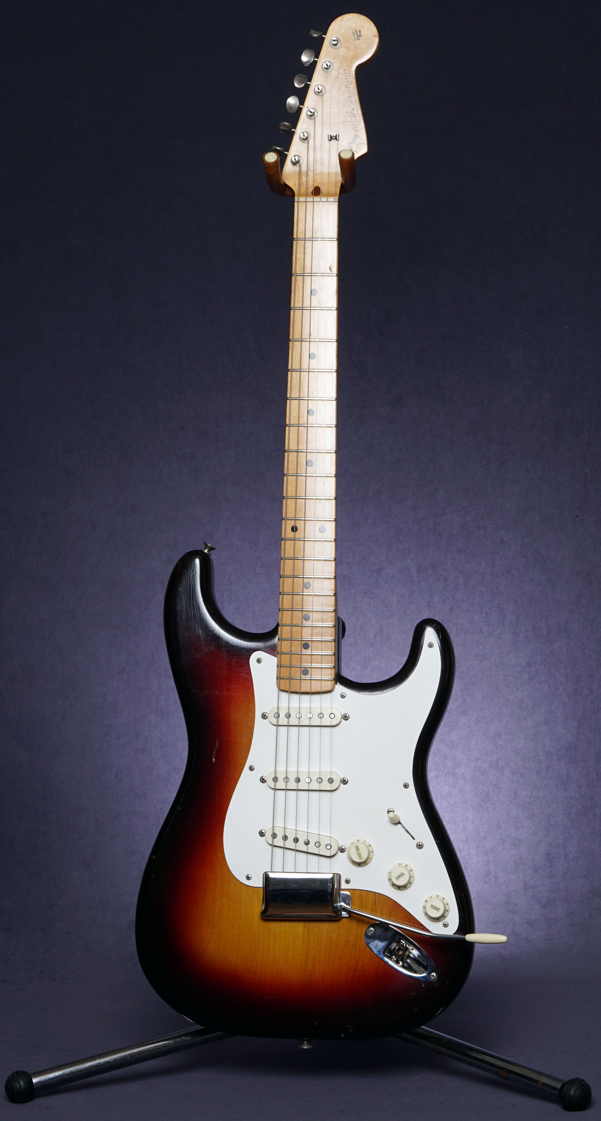 1958 Fender Stratocaster 3 color sunburst with Tremelo and ashtray bridge cover